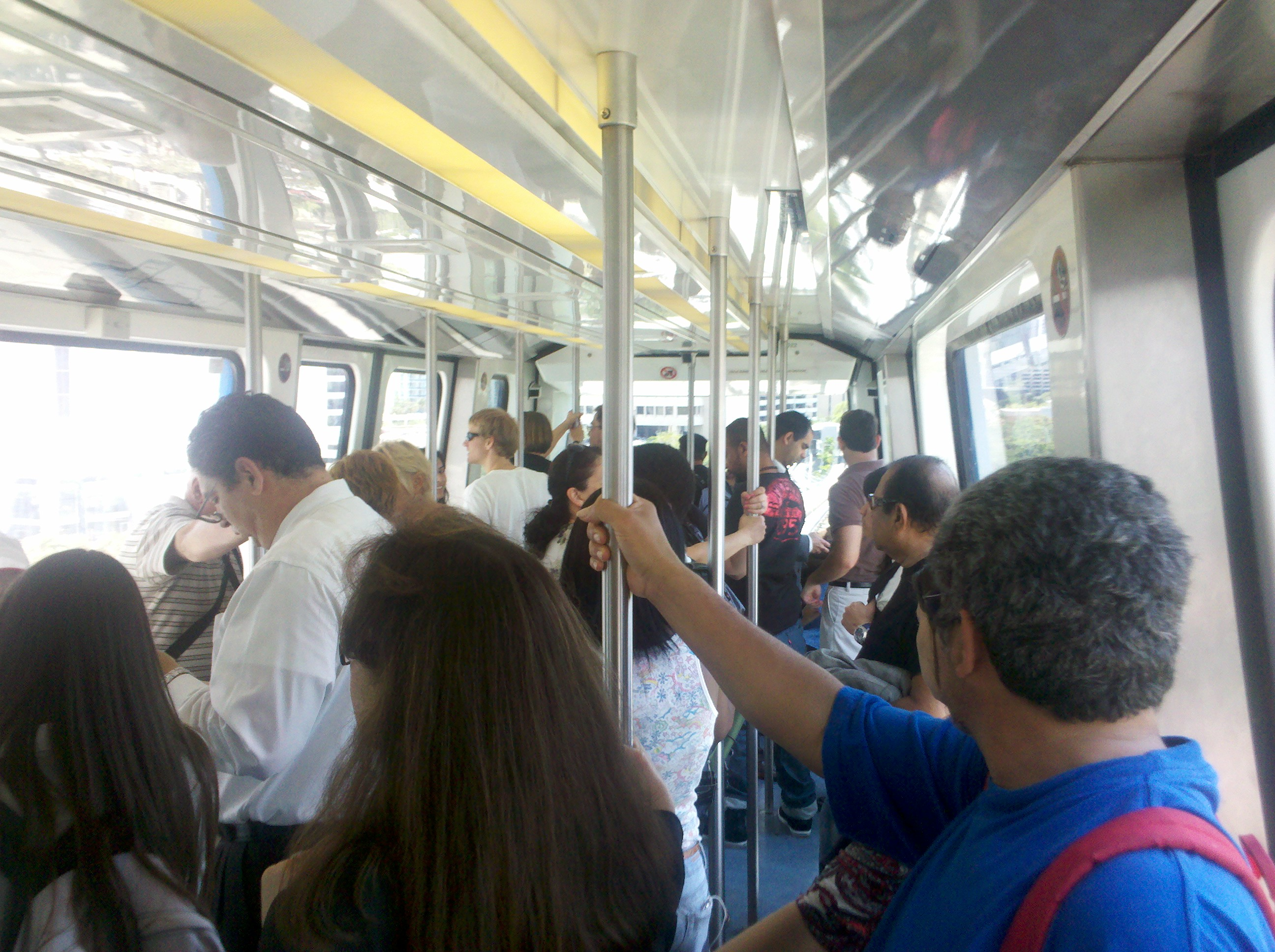 Crowded Metromover car